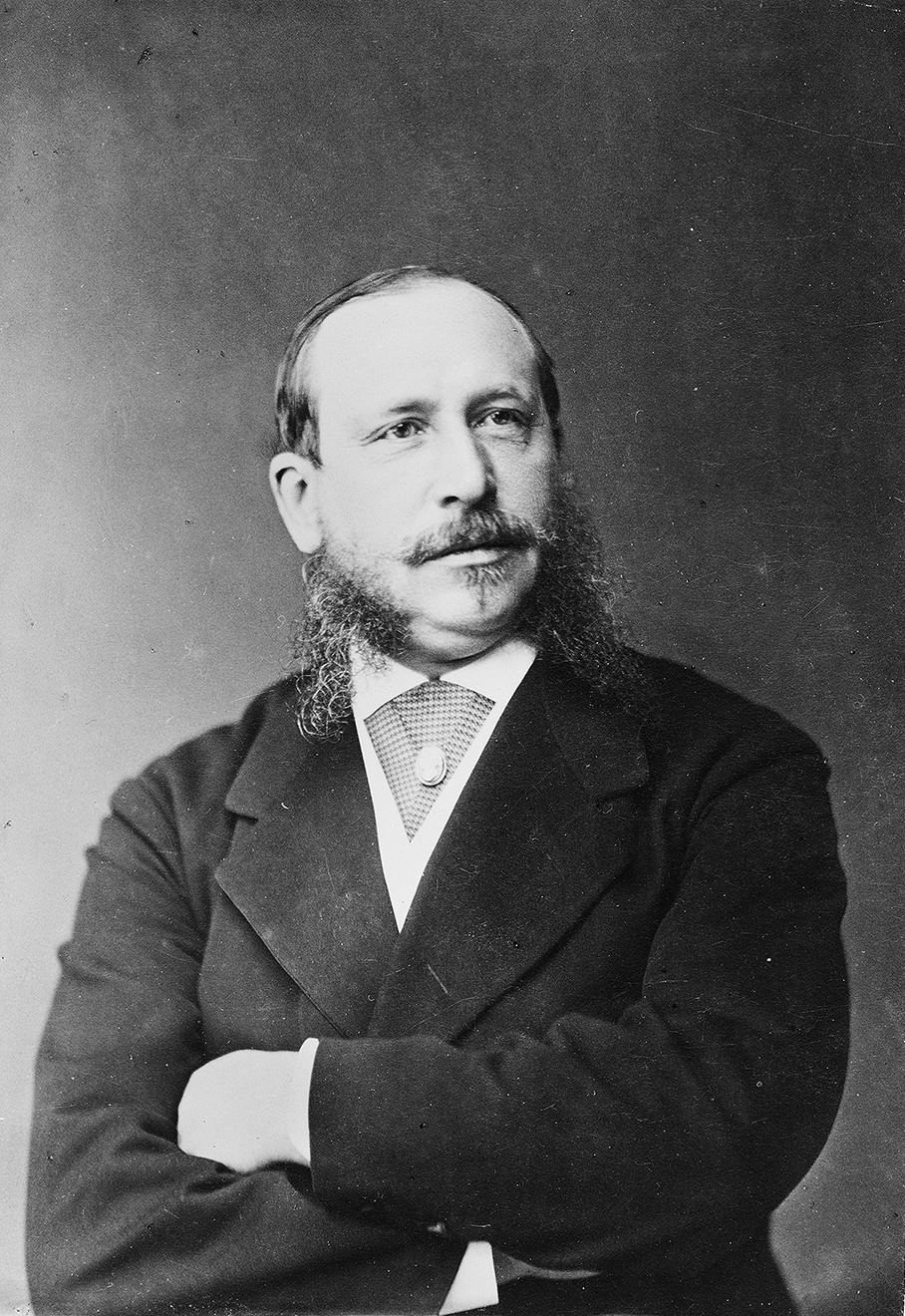 Portrait of the Belgian painter Ferdinand Pauwels (1830-1904)